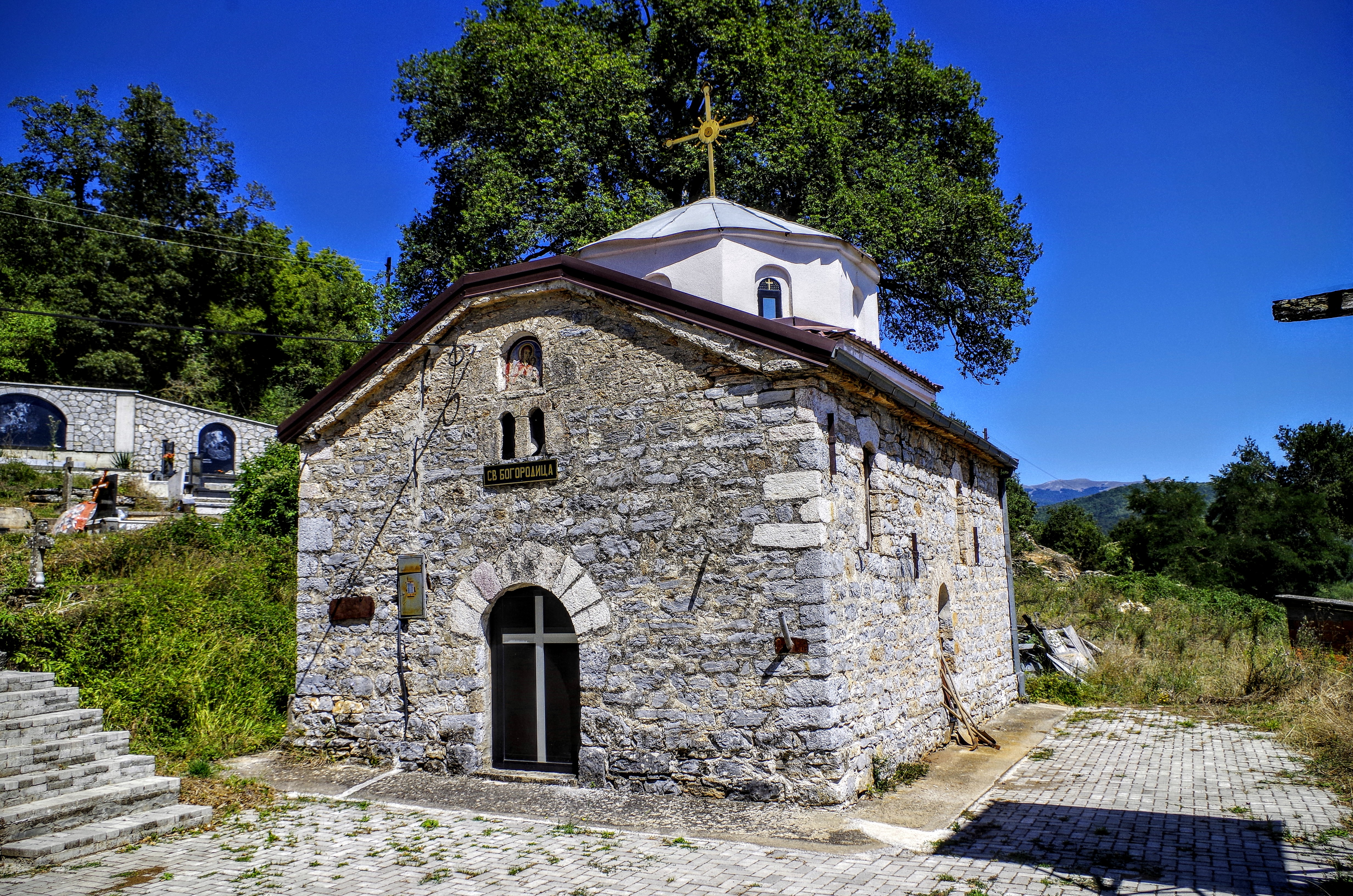 View of Church of the Theotokos in the village Novo Selo